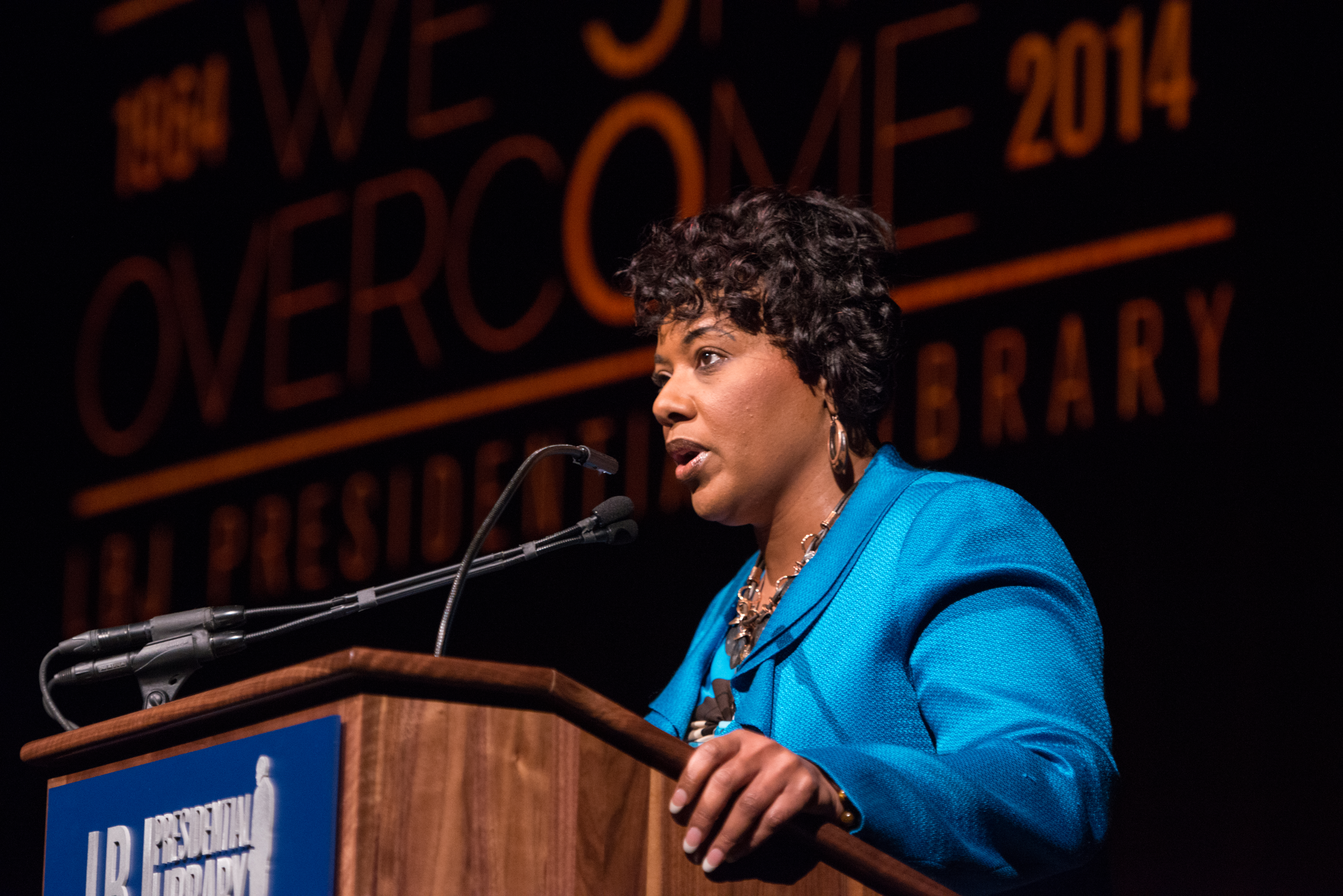 AUSTIN, APRIL 9--Bernice A. King, daughter of Martin Luther King Jr. and the CEO of the King Center introduces civil rights leaders Julian Bond, John Lewis, and Andrew Young at the Civil Rights Summit at the LBJ Presidential Library. Photo by Lauren Gerson.